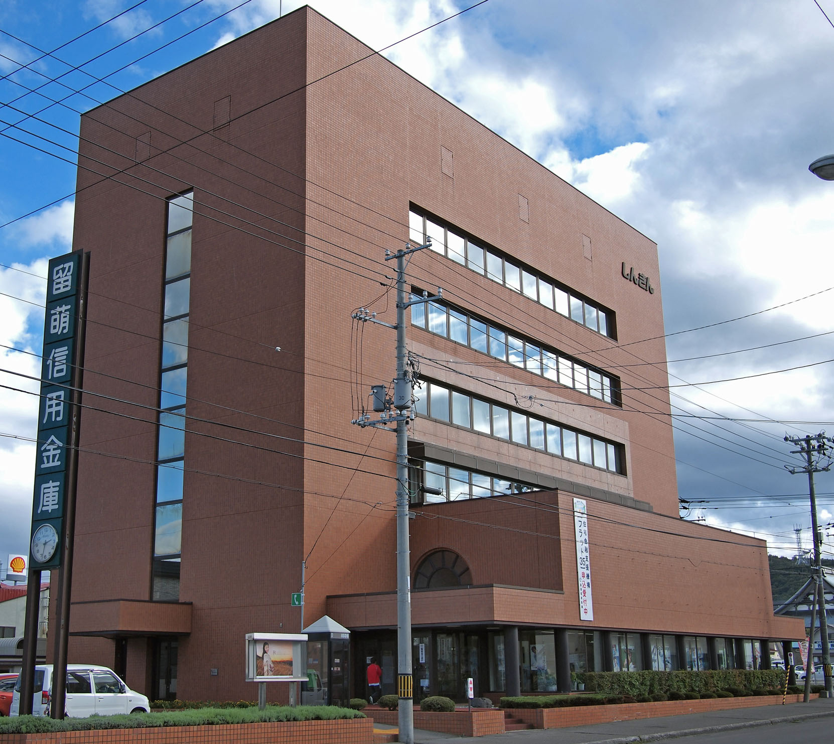 Rumoi shinkin bank, Rumoi, Hokkaido, Japan